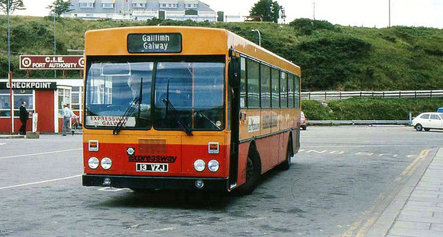 Express bus, Rosslare Harbour A Bus Eireann Bombardier bus awaits departure from Rosslare Harbour with the 15.30 Express service to Galway.